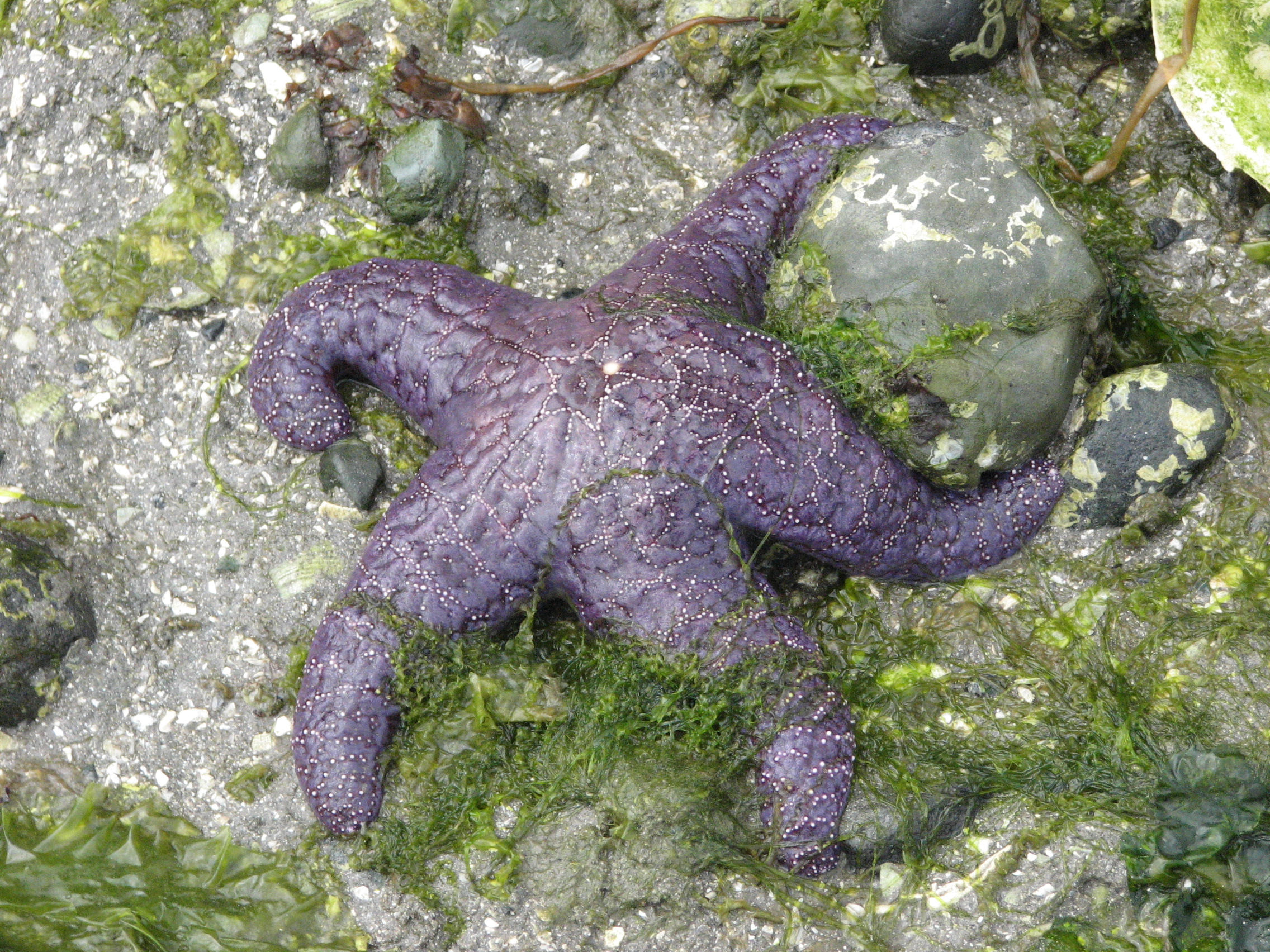 Ochre sea star (Pisaster ochraceus) taken at Ganges Harbour, Salt Spring Island, British Columbia